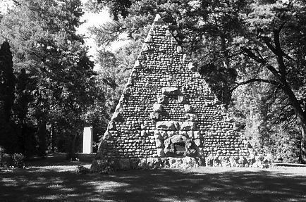 photo by einar Einarsson Kvaran aka Carptrash 16:43, 11 November 2006 (UTC) Gunckel Mausoleum, Toledo Ohio